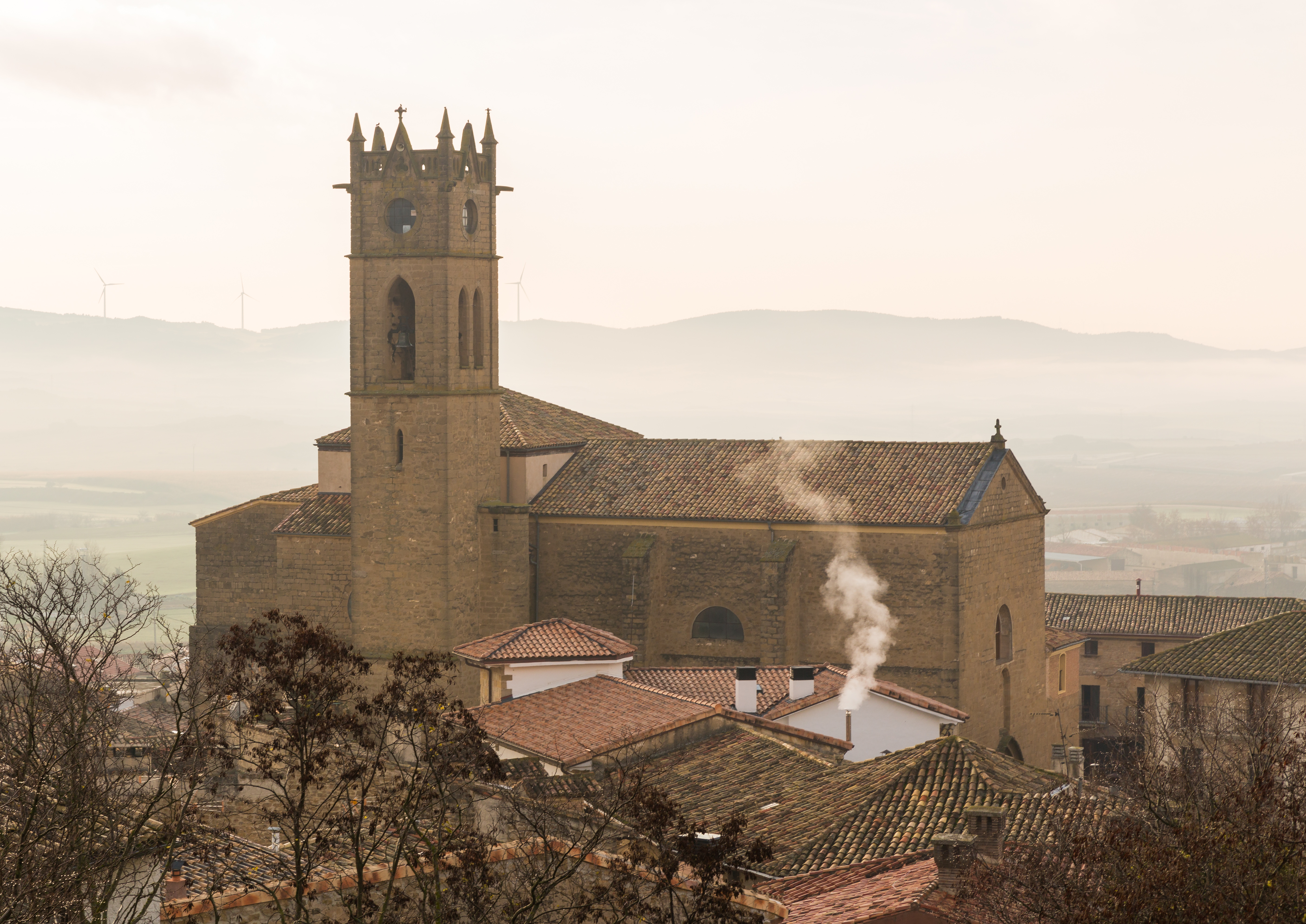 St Peter church, Artajona, Navarre, Spain